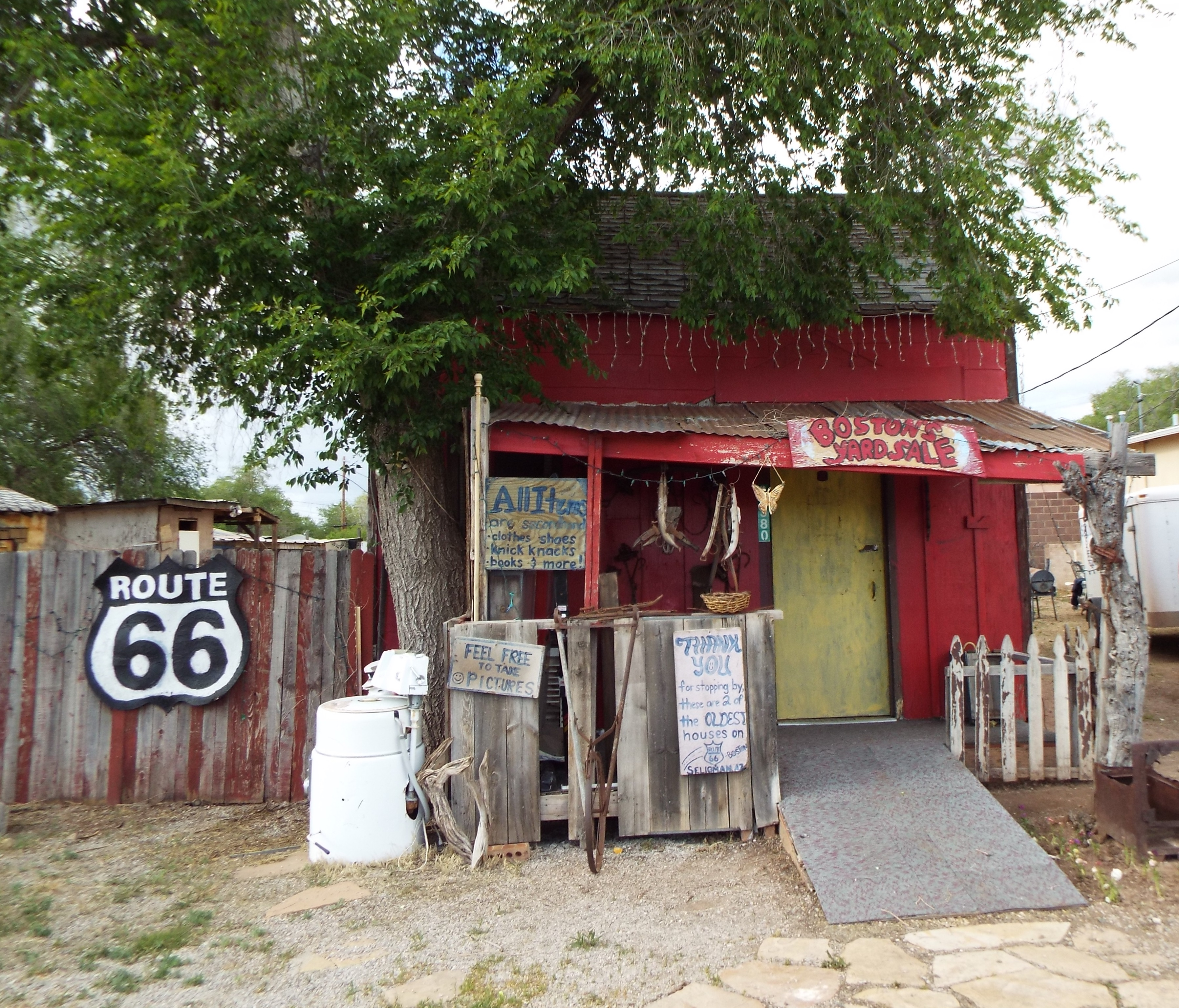 Commodore Perry Owens Saloon-1880's in Seligman, Az